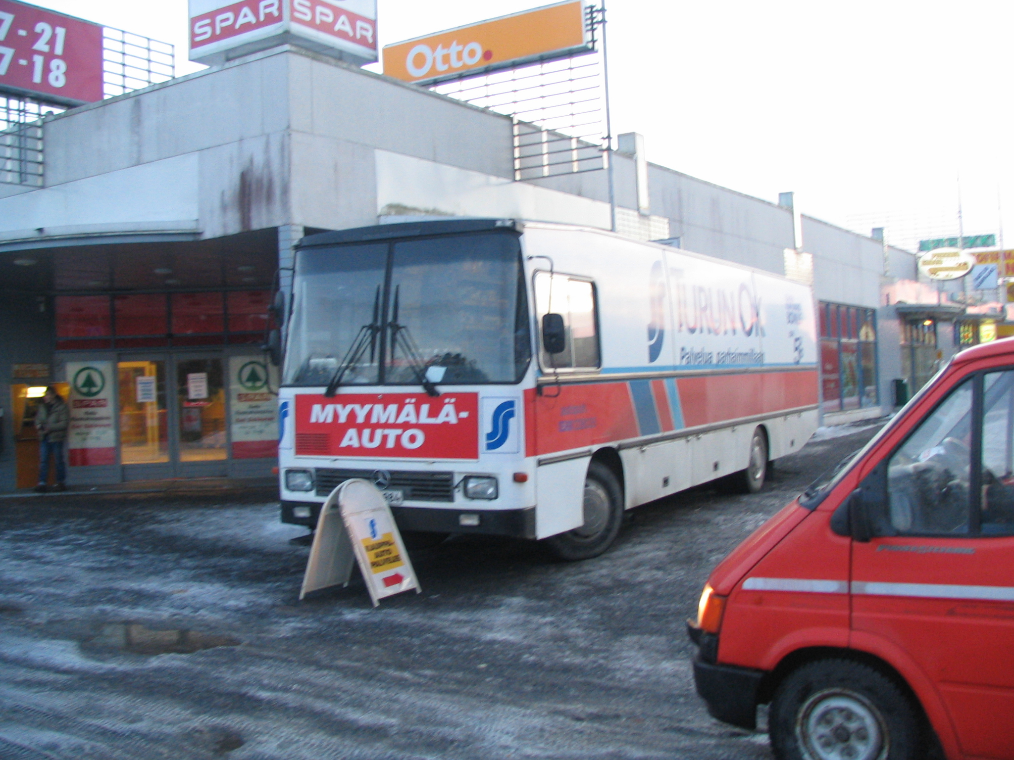 A Finnish grocery store on wheels outside in 2007